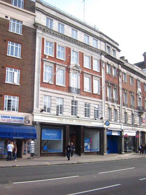 17-19 Buckingham Palace Road The headquarters of The Guide Association - celebrating their 100th anniversary this year - 2009.